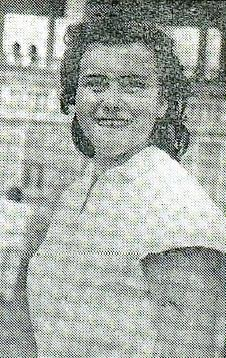 Nada Kotlušek (1934-), Slovene athlete